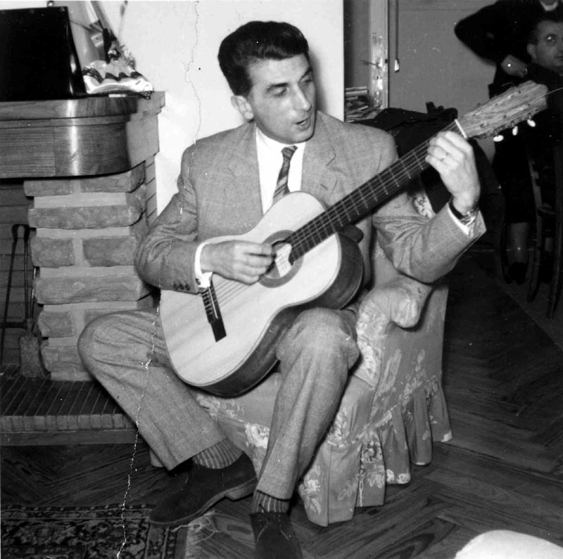 Mixel Labegerie (1921-1980), Basque singer